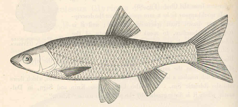 Leuciscus svallize (Heckel and Kner) Subject: Cyprinidae, Leuciscus Tag: Fish